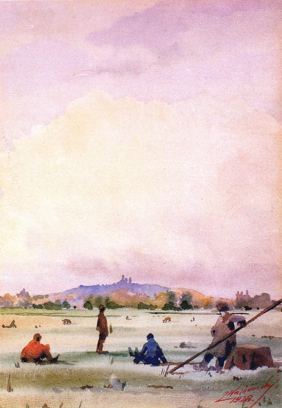 Chełm - general view by Zenon Waśniewski, 1928